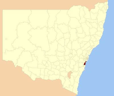 Location of Wollongong LGA in New South Wales